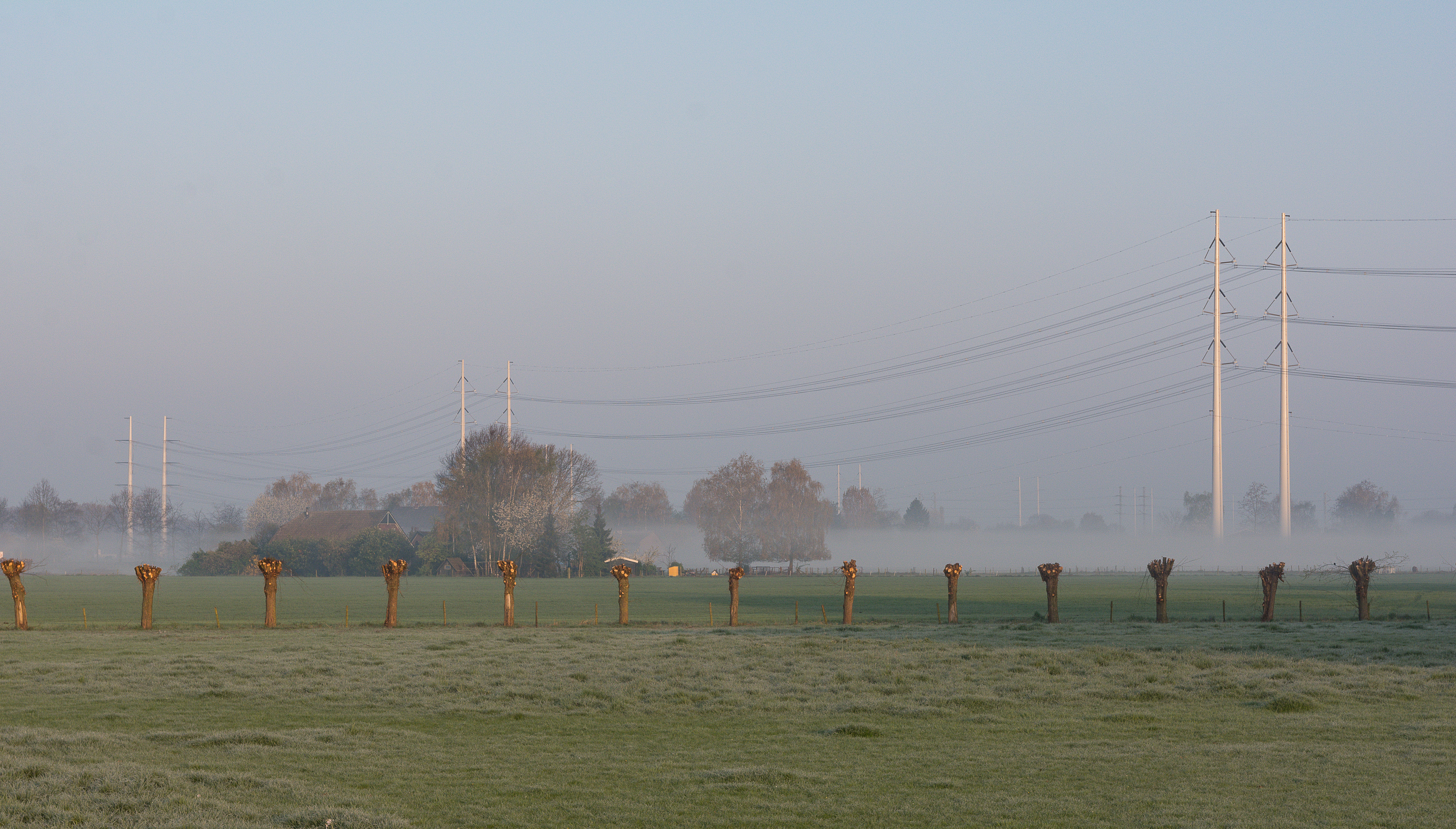 Landscape and Wintrack pylons of the new 380 kV Doetinchem–Wesel power line near Etten/Ulft, Oude IJsselstreek, Netherlands.